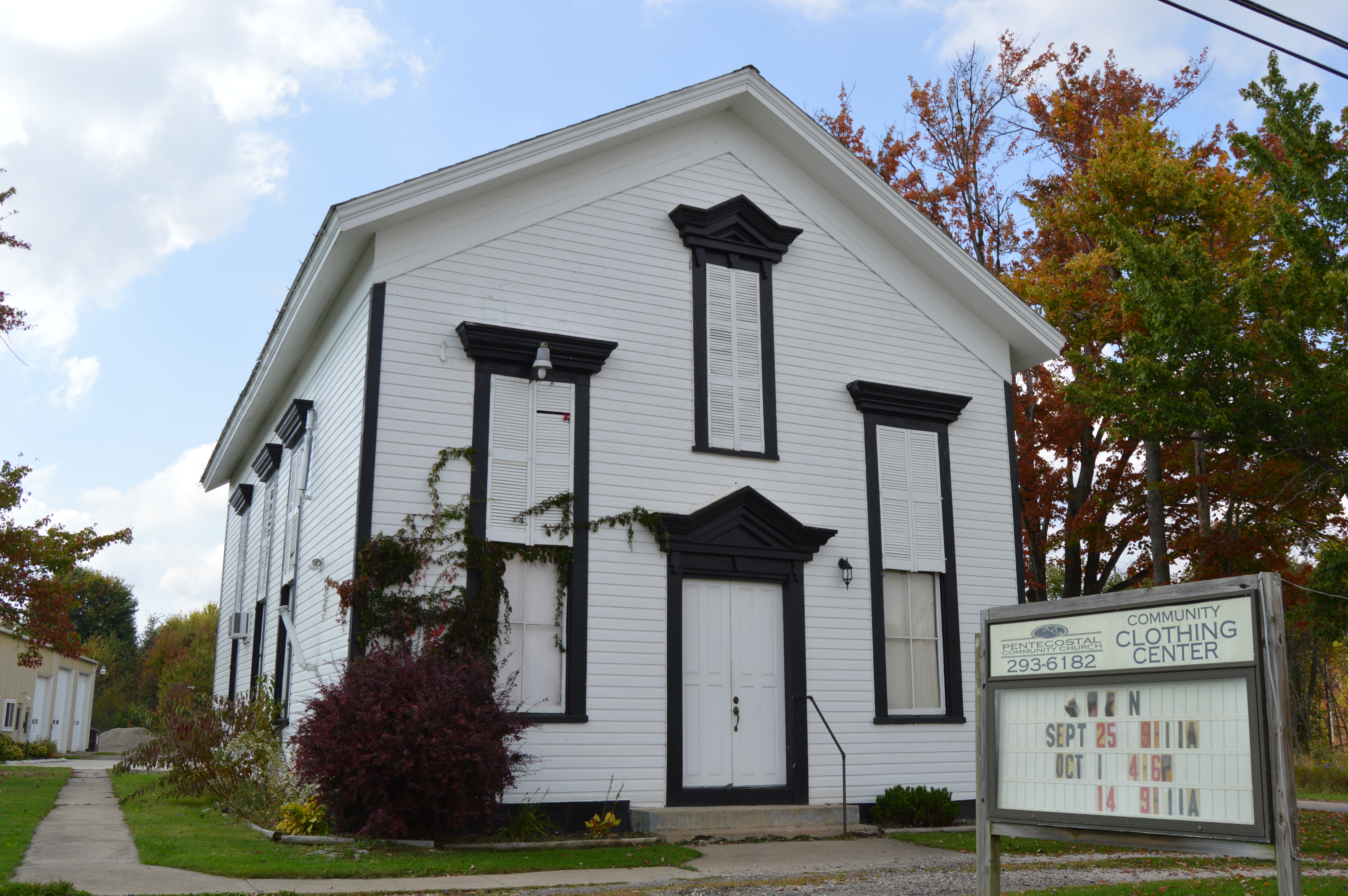 Front and southern side of the New Lyme Town Hall, located at 6000 State Route 46 in New Lyme Township, Ashtabula County, Ohio, United States. Built in 1885, it is listed on the National Register of Historic Places.